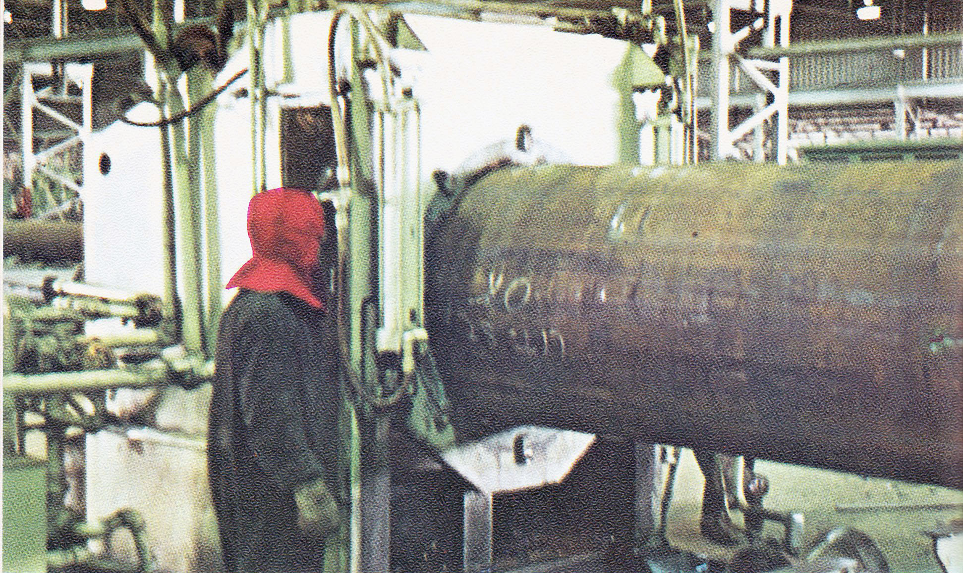 Ahwaz Oil pipeline production factory.